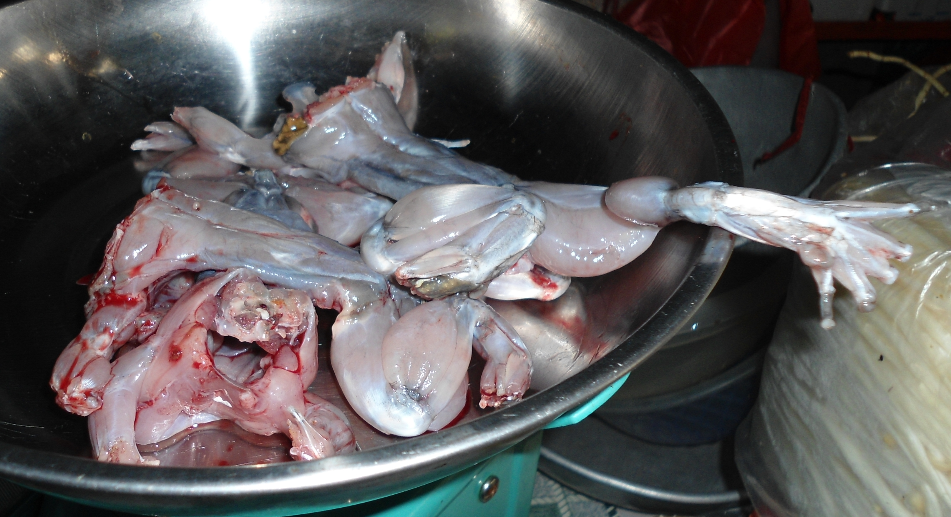 Frog meat less than one minute old in a market in Haikou City, Hainan Province, China.